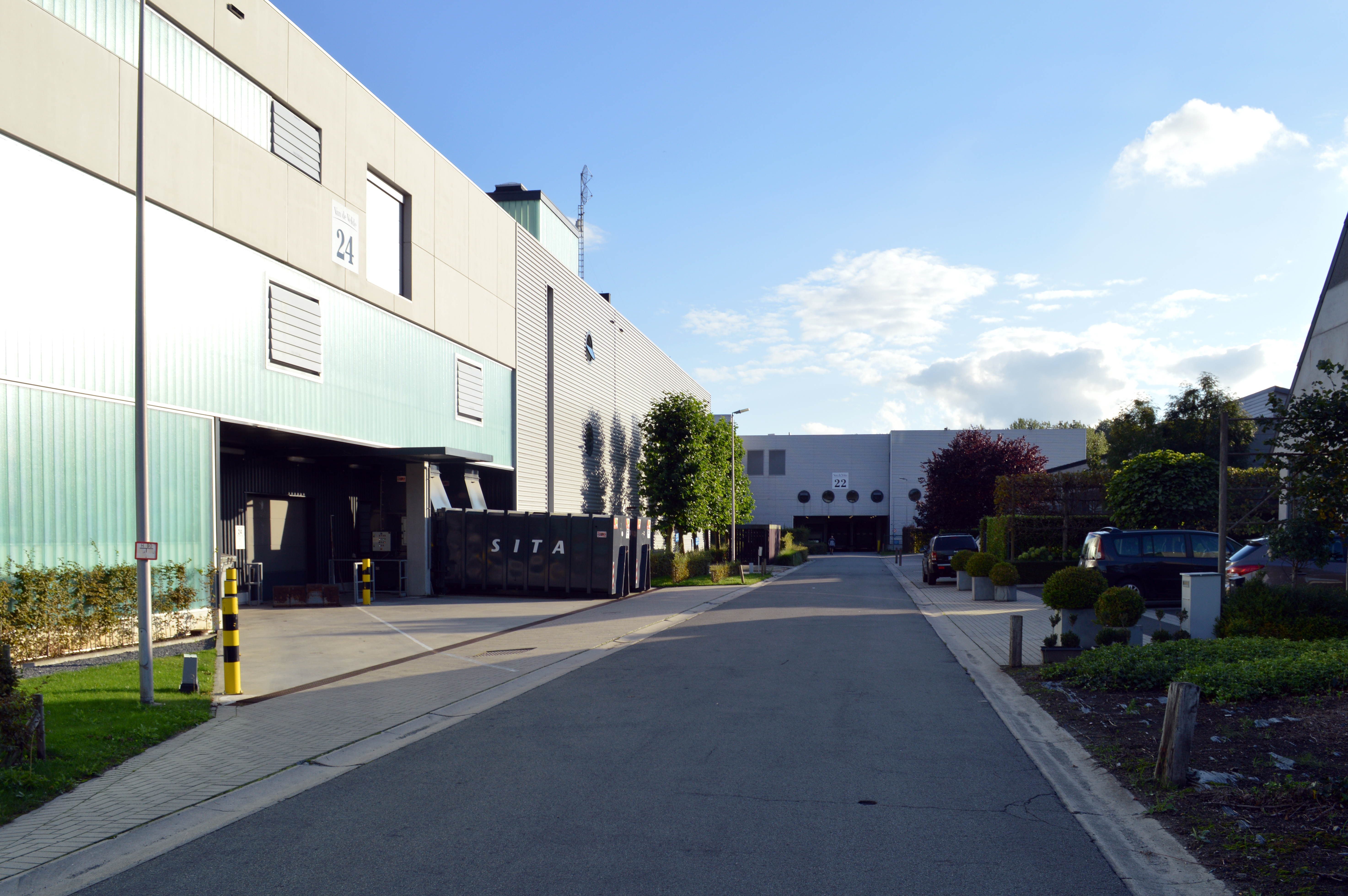 Van de Velde's distribution center in Wichelen